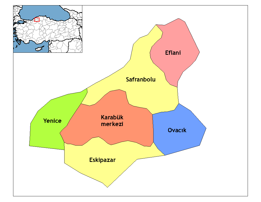 Map of the districts of Karabük province in Turkey. Created by Rarelibra 21:58, 1 December 2006 (UTC) for public domain use, using MapInfo Professional v8.5 and various mapping resources. Edited by One Homo Sapiens Corrected text where İ,Ş,ı,ğ,or ş occurs in name. Source: [statoids-com]. Increased font size and enhanced color differences among adjacent districts.